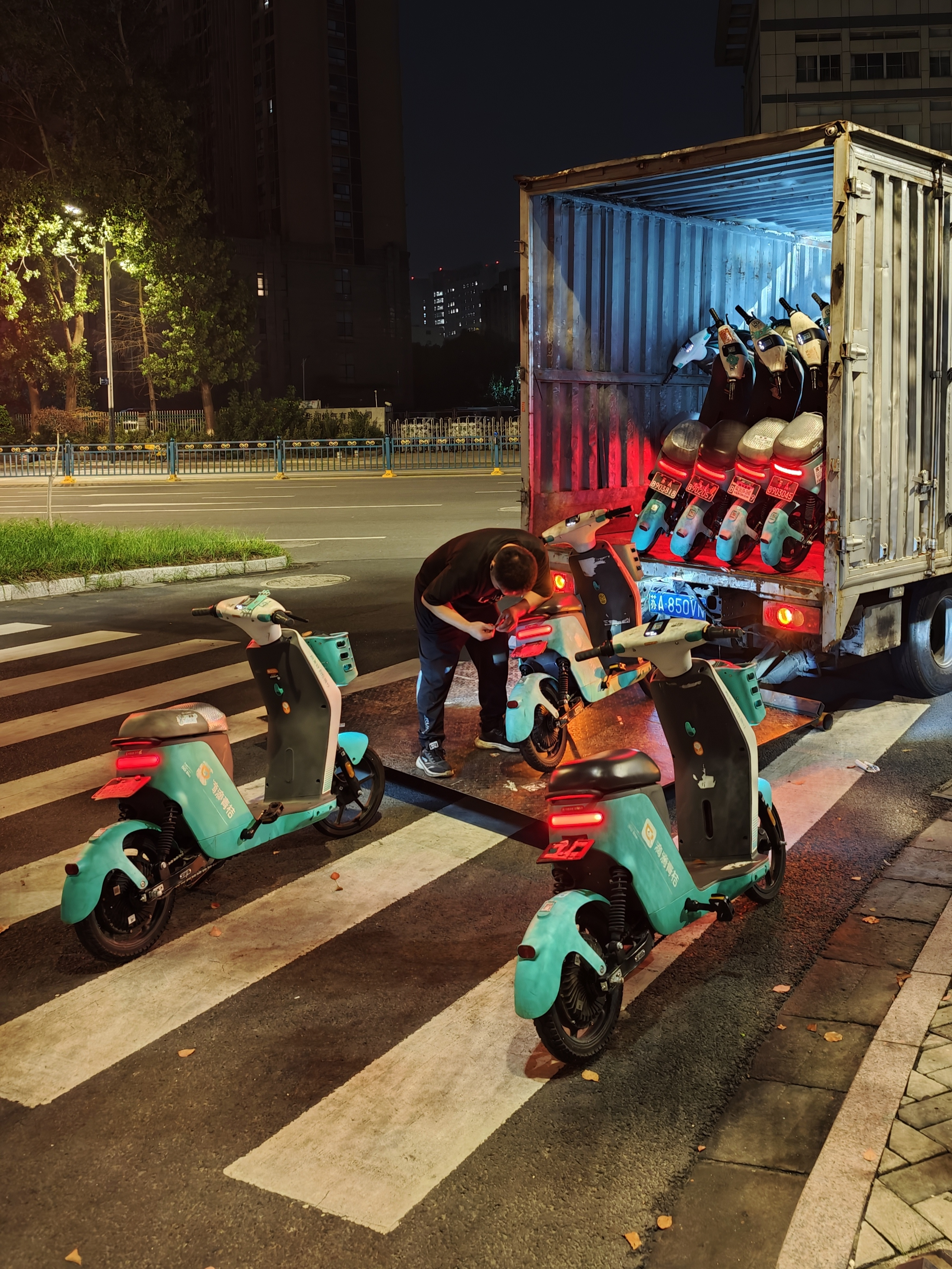 Mobike staff transporting and maintaining bikes in Shanghai